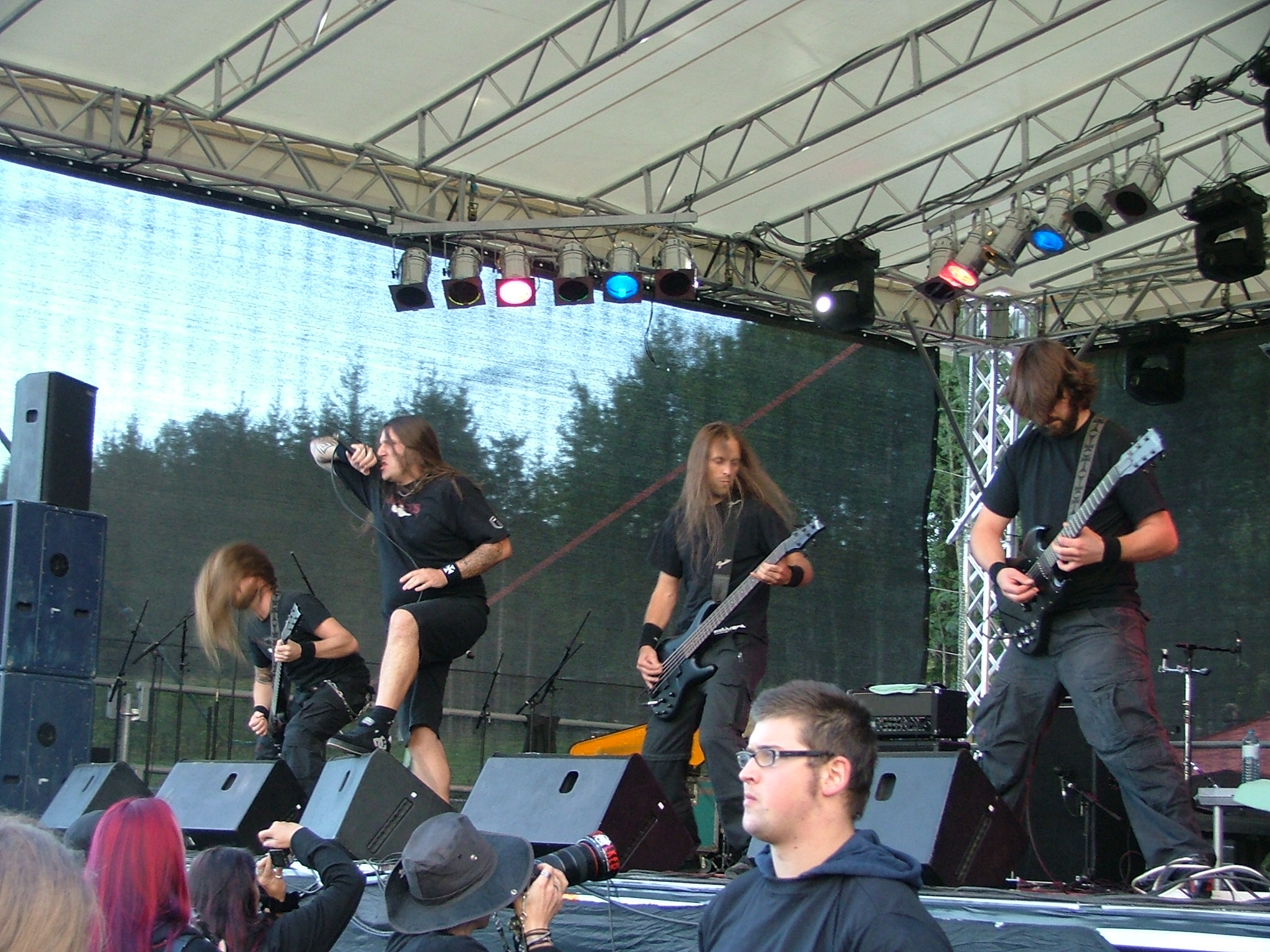 Italian dark metal band Graveworm at 'Rock the Lake' in Finkenstein am Faaker See